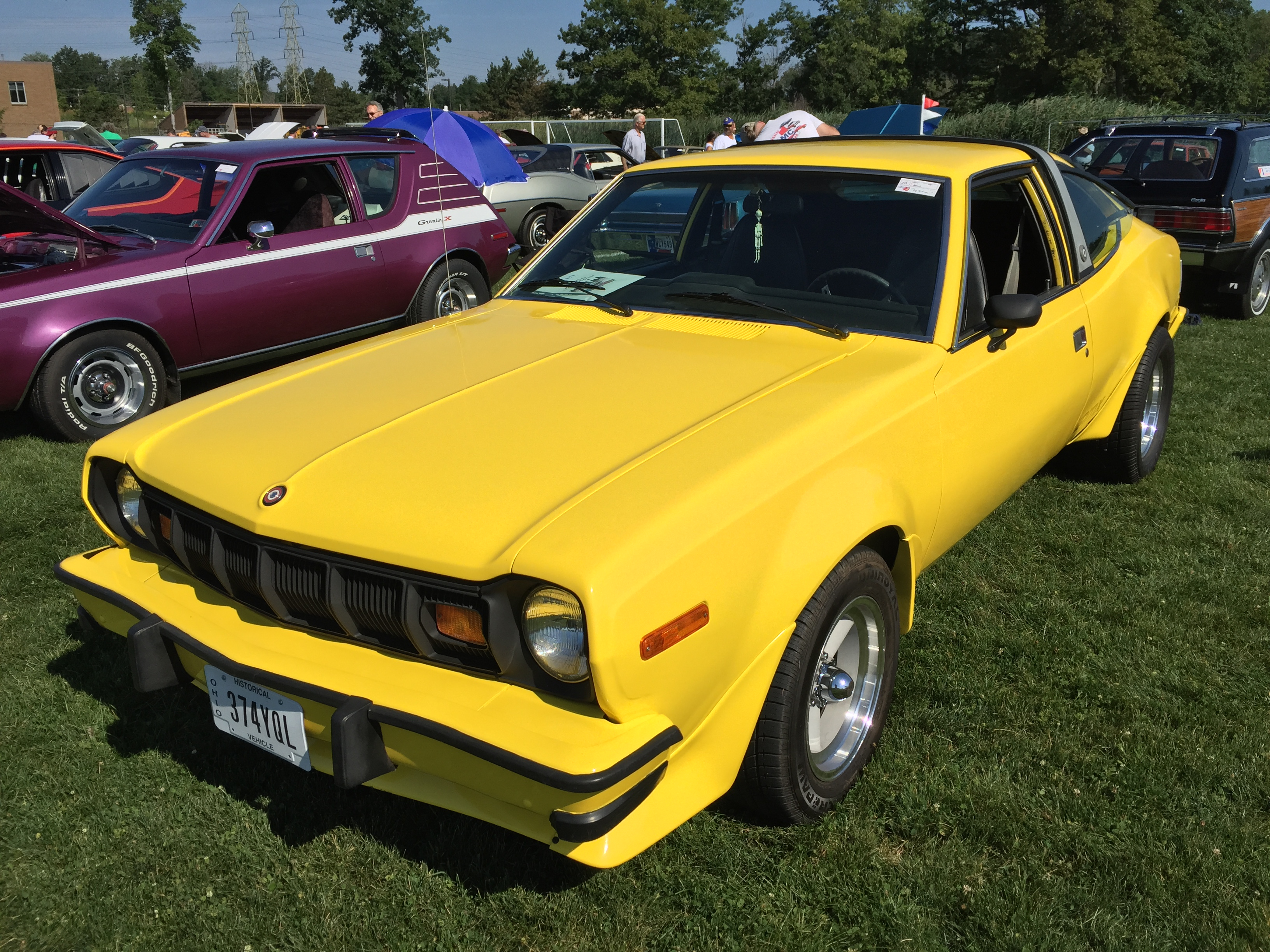 1977 AMC Hornet AMX, a sports compact built by American Motors Corporation. The AMX was hatchback body style and included either the 258 I6 with 4-speed or automatic or the 304 V8 with automatic, and the following as standard: painted bumpers with rubber guards and nerf strips, painted fender flares and front air dam, black rear window louvers, AMX graphics on lower bodyside and rear deck, dual outside mirrors in flat back, blacked out window frames, grille, and rear panel, a silver "targa" roof band, styled road wheels with trim rings and DR78 tires, unique black bodyside scuff moldings, brushed silver instrument panel overlays, tachometer, gauge package, center console and bucket seats, custom door panels, and soft-feel steering wheel. This car is finished in yellow and has been slightly modified and customized such as removal of all exterior insignia and aftermarket wheels with a raised rear end, as well as an aftermarket radio. Photograph taken during the American Motors Owners Association (AMO) annual convention that was held July 2015 near Cleveland, Ohio.